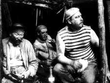 Germinal